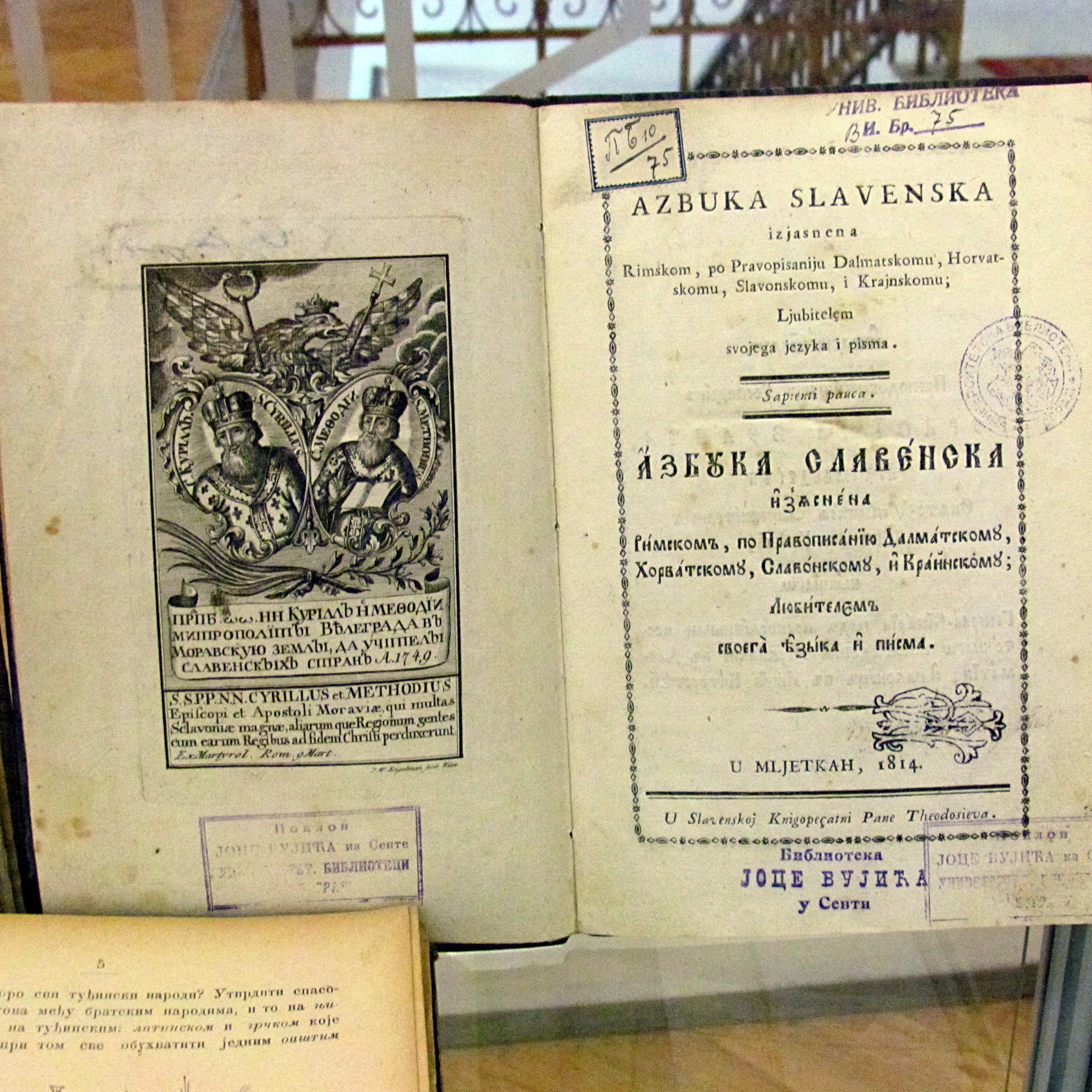 Slavic alphabet.